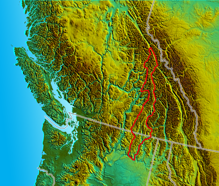 Adapted from image in Wikimedia Commons File:South BC-NW USA-relief.png